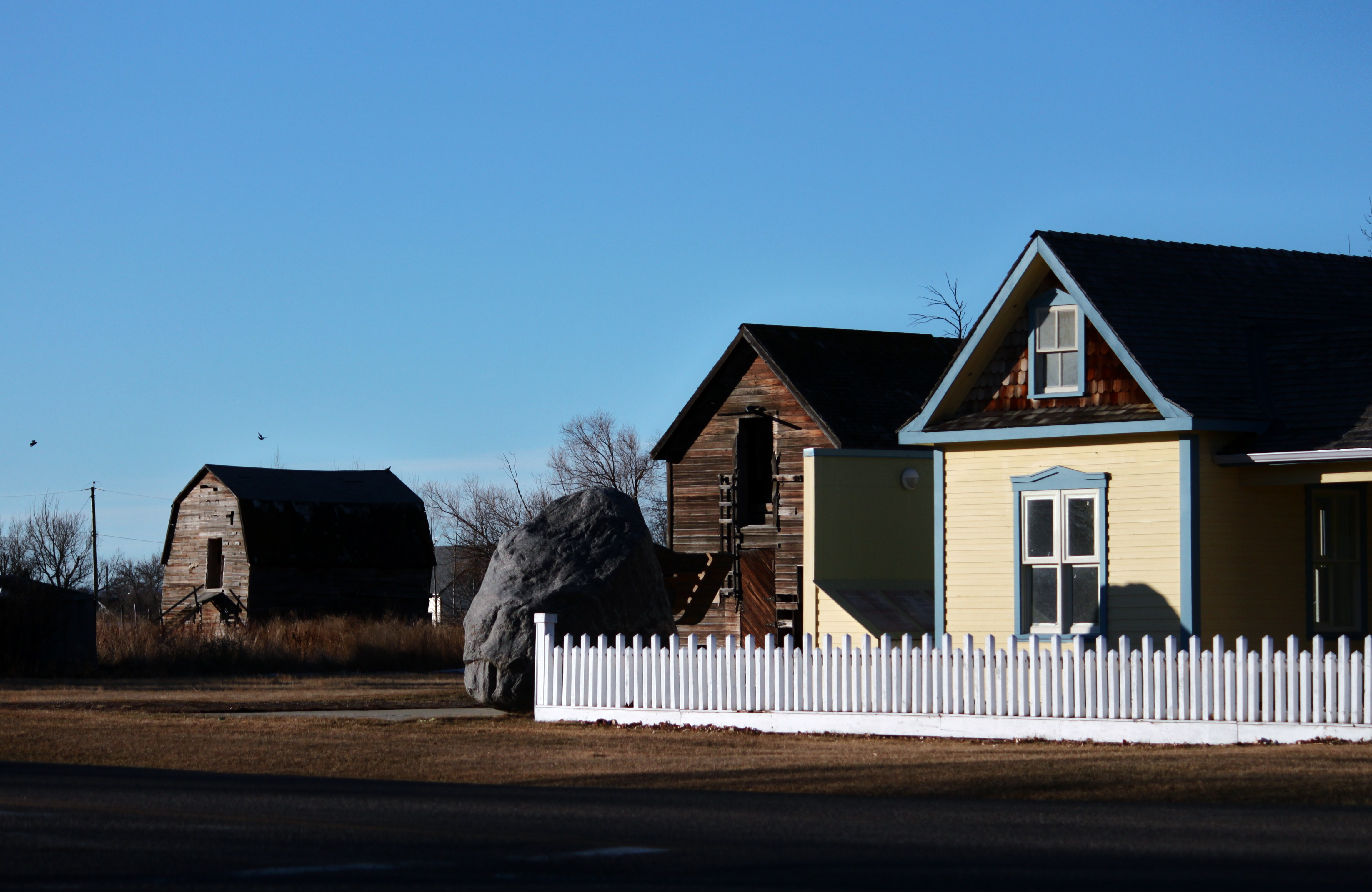 L to R Moroni Seely barn ca. 1903-1907. Bishop's Storehouse, 1900s Replica Pioneer home/tourist info, 2000